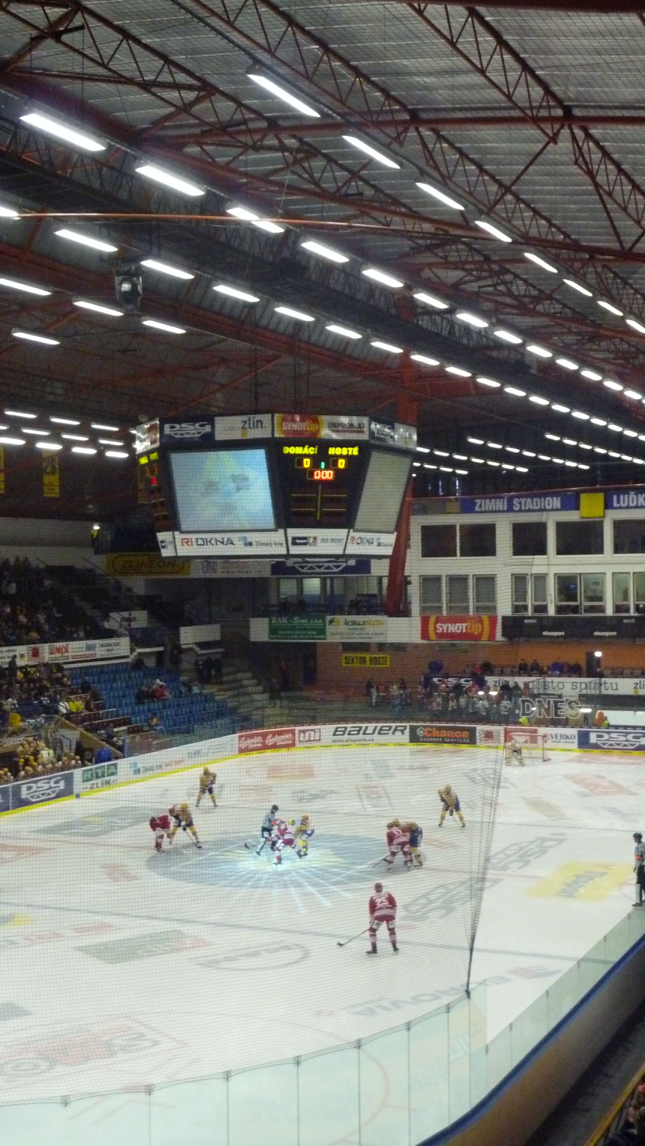 PSG Zlín v HC Oceláři Třinec, entry face-off -10-5-3-2◄ ►+2+3+5+10